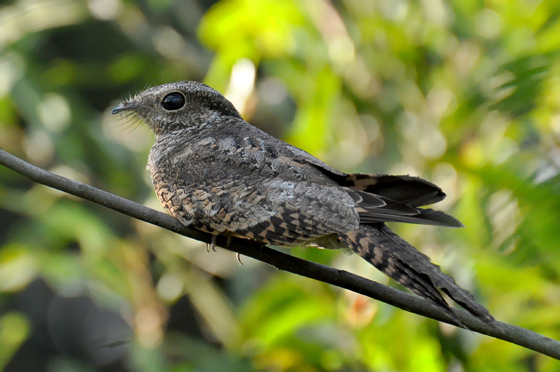 Hydropsalis climacocerca subsp. climacocerca female photographed in the Amazon, Brazil, in November 2010.